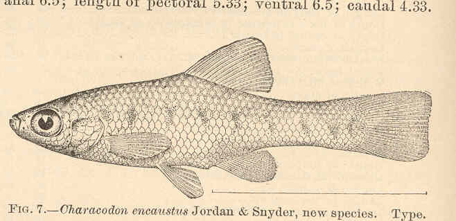 Charcodon encaustus Jordan & Snyder, new species. Type Subject: Charcodon Tag: Fish